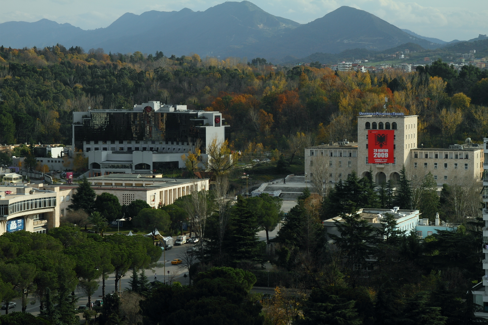 Tirana, Albania, seen from Sky Tower: Sheraton Hotel, University decorated for Albania's National Holiday and Big Park behind the buildings